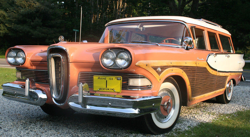 A front 3/4 view of a 1958 Edsel Bermuda (highest-trim) 4-door station wagon with 2-tone paint and simulated woodgrain trim.